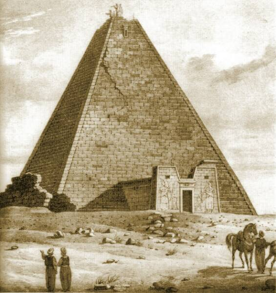 Illustration of the Pyramid of Amanishakheto, Wad Ban Naga (sic) [Meroe], Sudan, before it was destroyed by looting